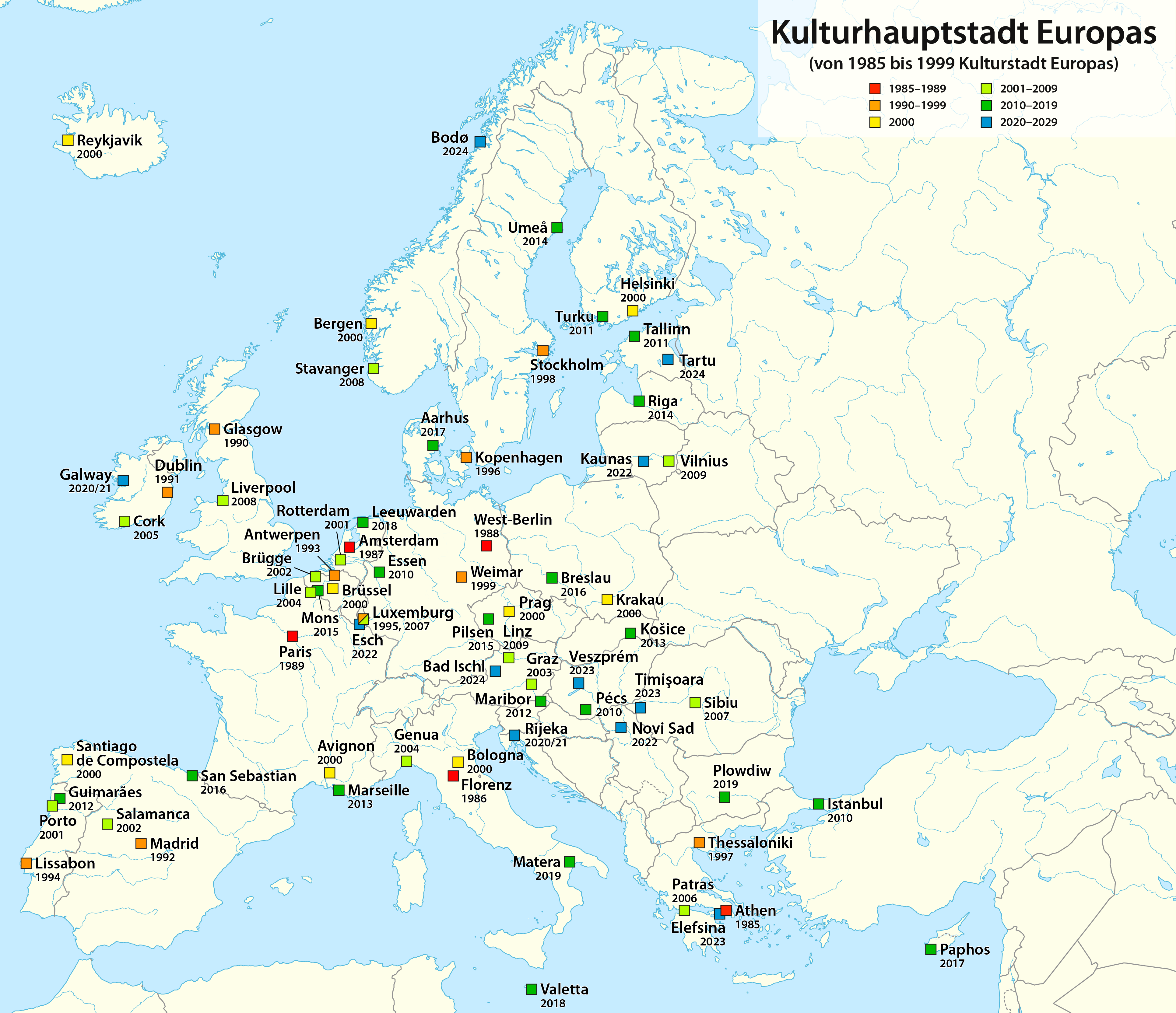 Map of the European Capitals of Culture